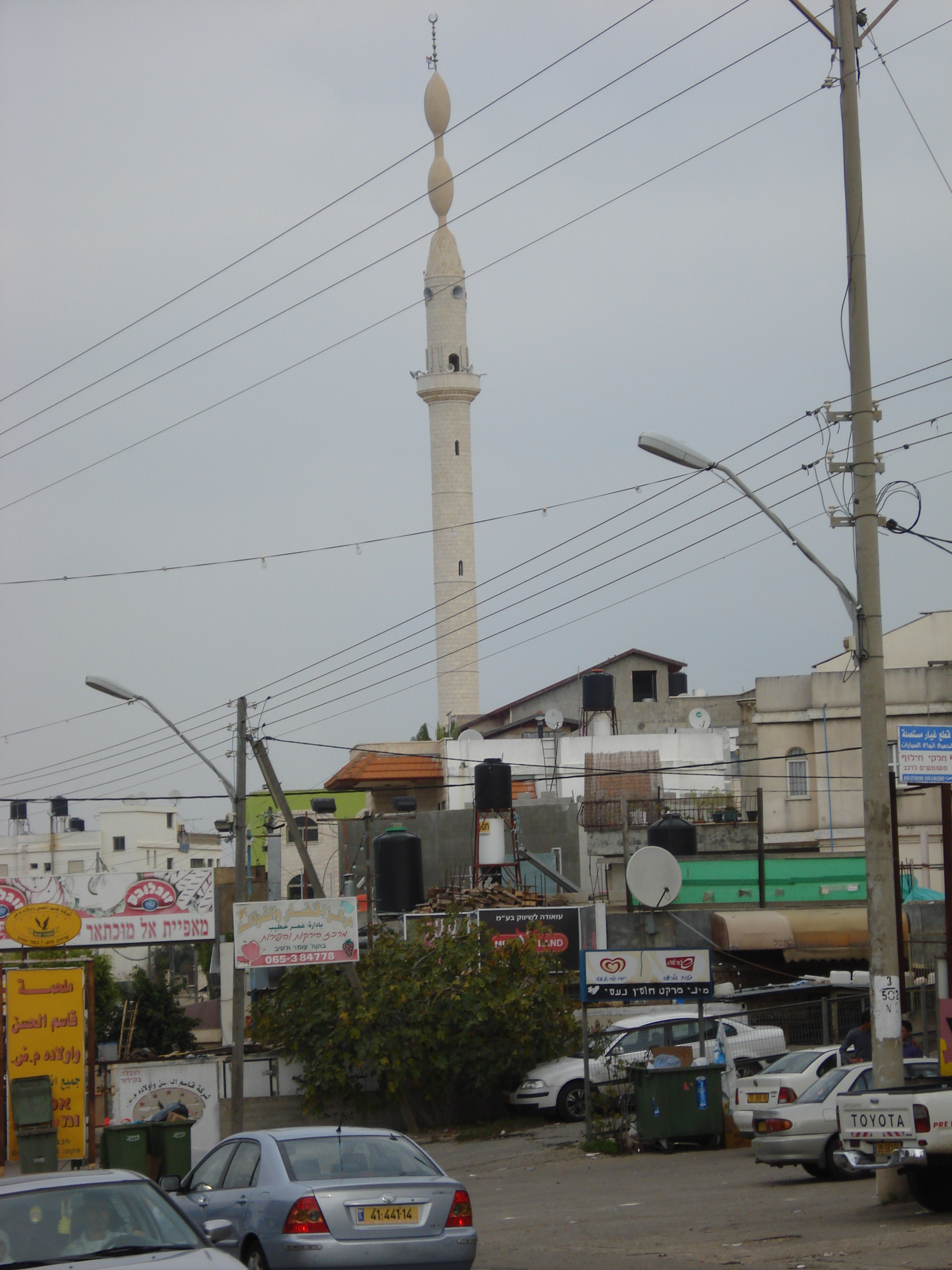 December 2009 in Jordan & Israel tourist sites